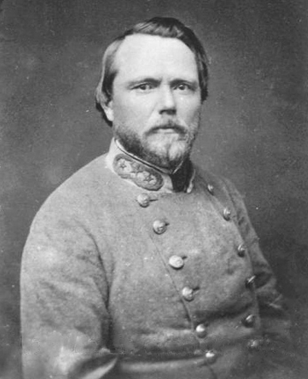 Samuel McGowan, a military officer from South Carolina, who fought in the Confederate Army during the American Civil War.